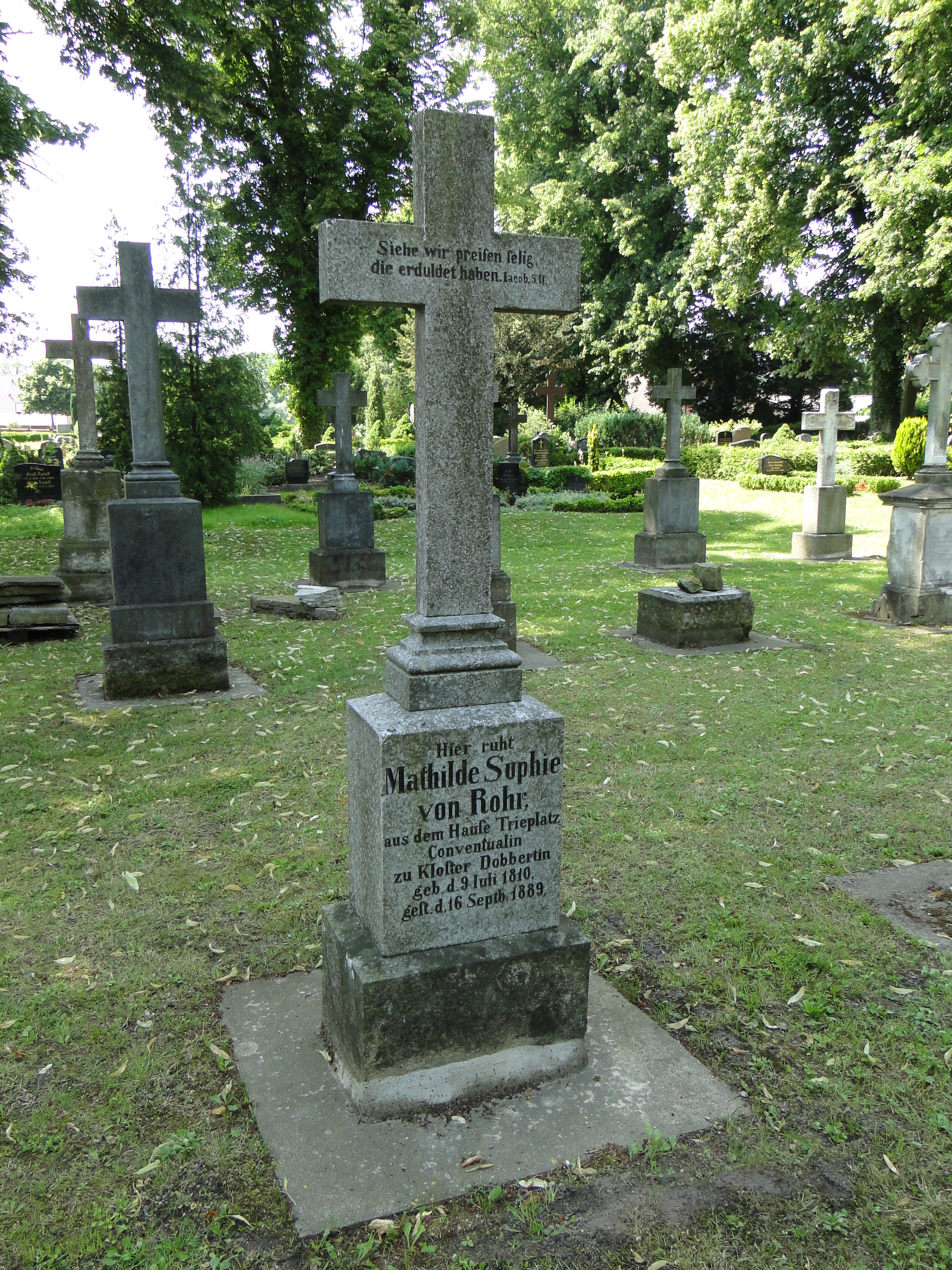 Gravestone of Mathilde von Rohr on the cemetery of Monastery in Dobbertin, district Ludwigslust-Parchim, Mecklenburg-Vorpommern, Germany